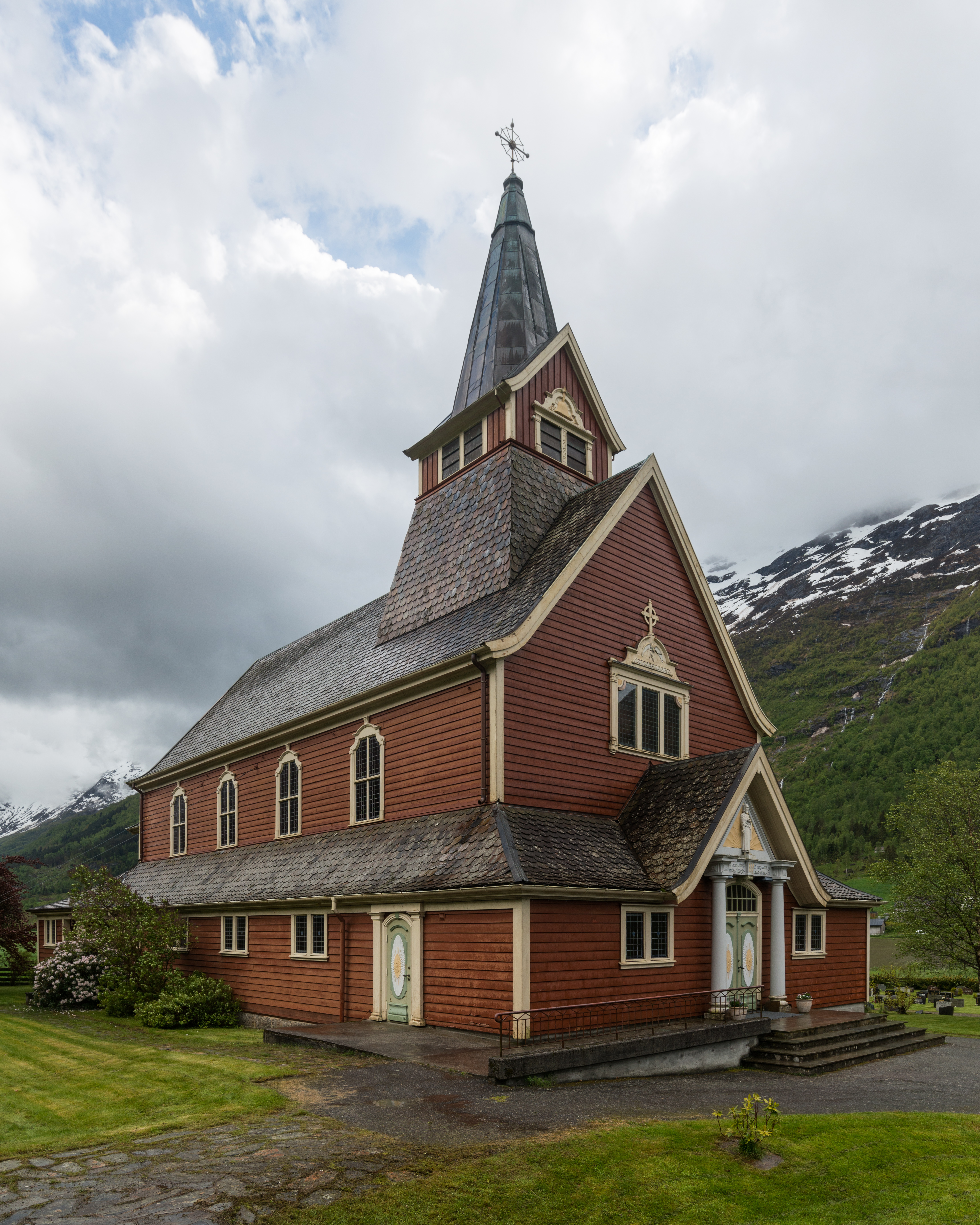 A northeast view of the Olden Church, Stryn, Sogn og Fjordane